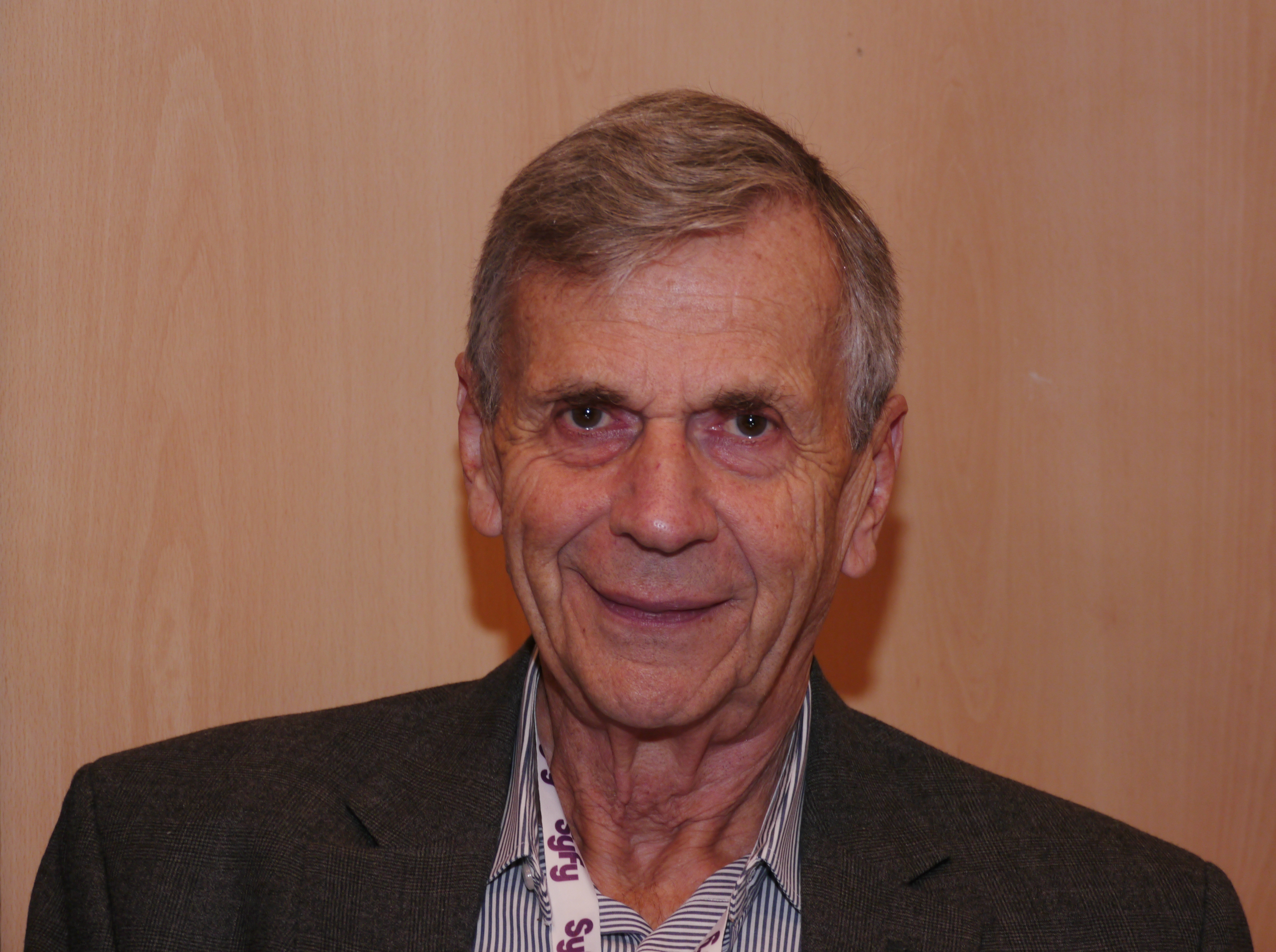 Toulouse Game Show Festival, 5th edition.